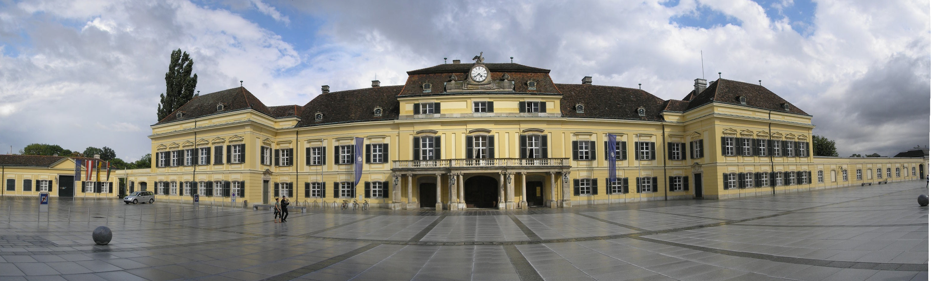 Panorama picture of the Blauer Hof at Laxenburg in Lower Austria.